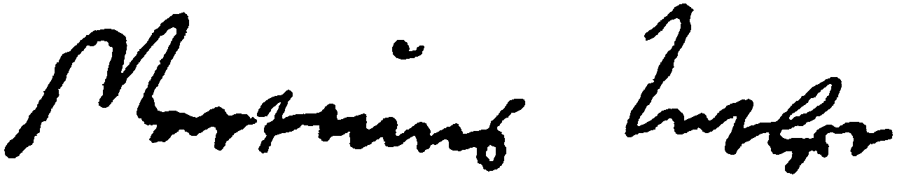 Martin Luther autograph.